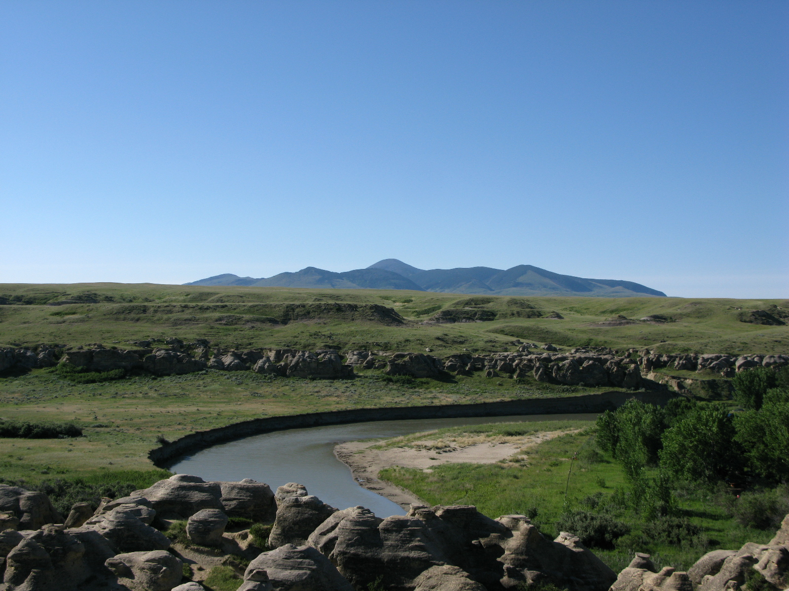 Milk River in Alberta. The Áísínai’pi National Historic Site of Canada is located in the Milk River Valley. To the south are the volcanic Sweetgrass Hills.